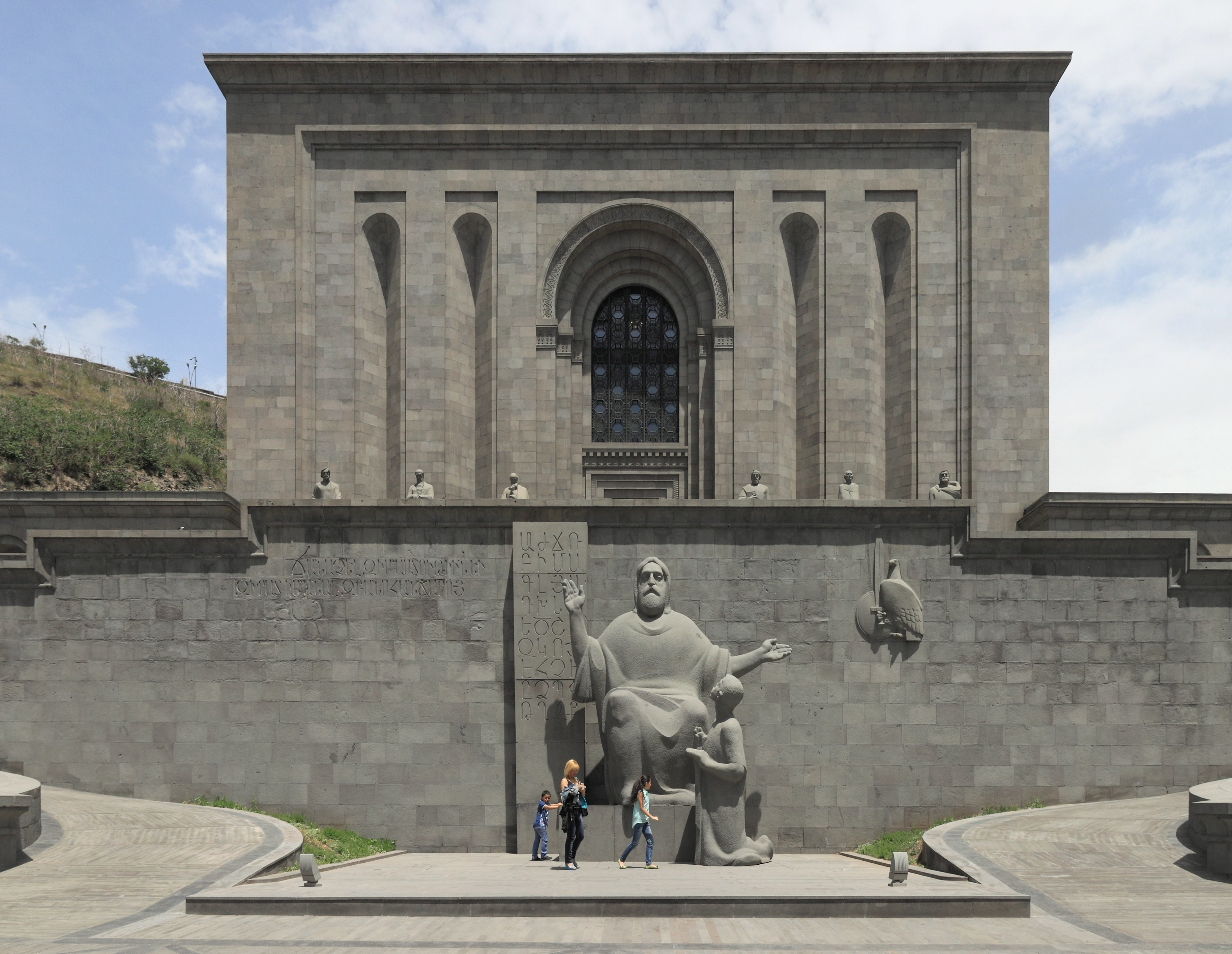 Matenadaran. Yerevan, Armenia.